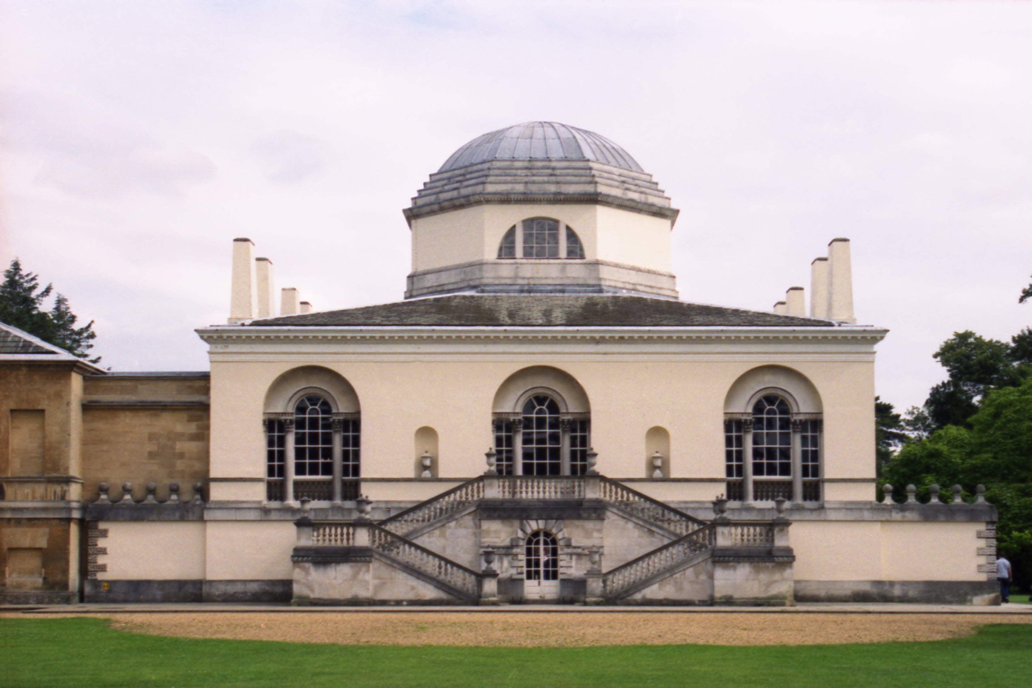 Chiswick House. Rear elevation of main building.